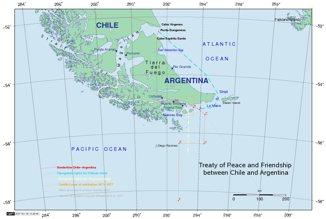 Treaty of Peace and Friendship between Chile and Argentina of 1984